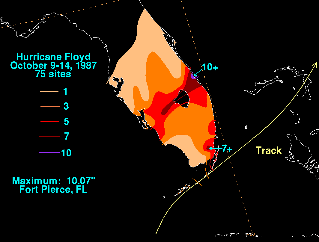 Storm total rainfall map of Hurricane Floyd during October 1987.